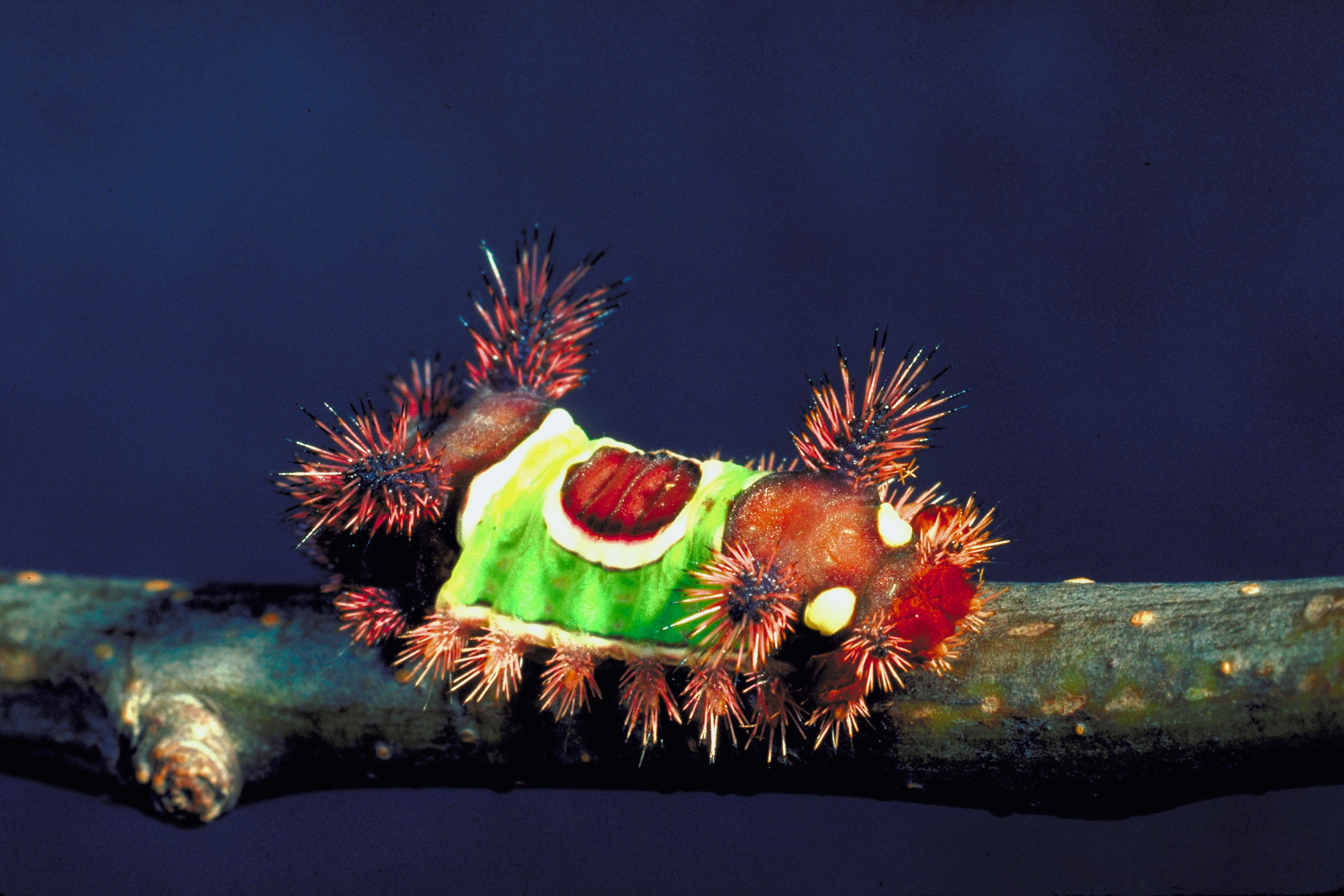 Acharia stimulea Clemens, 1960 Common Name: saddleback caterpillar Photographer: Gerald J. Lenhard, Louiana State Univ, United States Descriptor: Larva(e) Description: urticating hairs Image taken in: United States